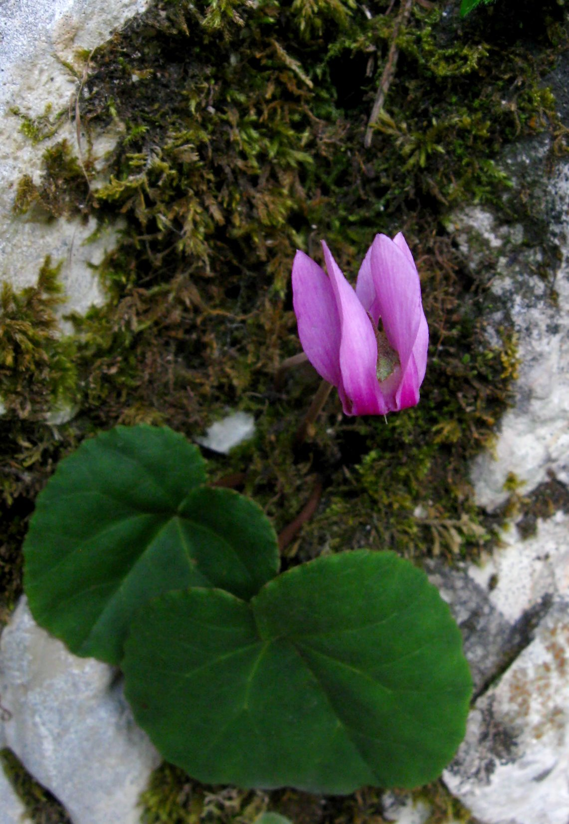 Flower and leaves of a plain green-leaved form of Cyclamen purpurascens in Plitvice Lakes National Park, Croatia